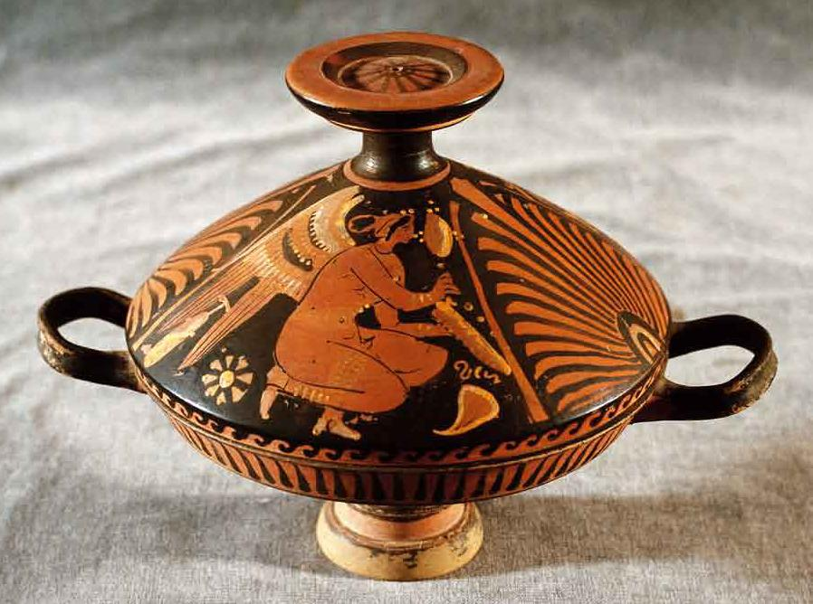 Lekanís with a lid (vase), decorated with red painting and black varnish, representing a woman and Eros. Pottery, Apulia, Magna Graecia (330-320 BC).